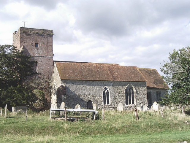 St Matthew, Warehorne (south side)